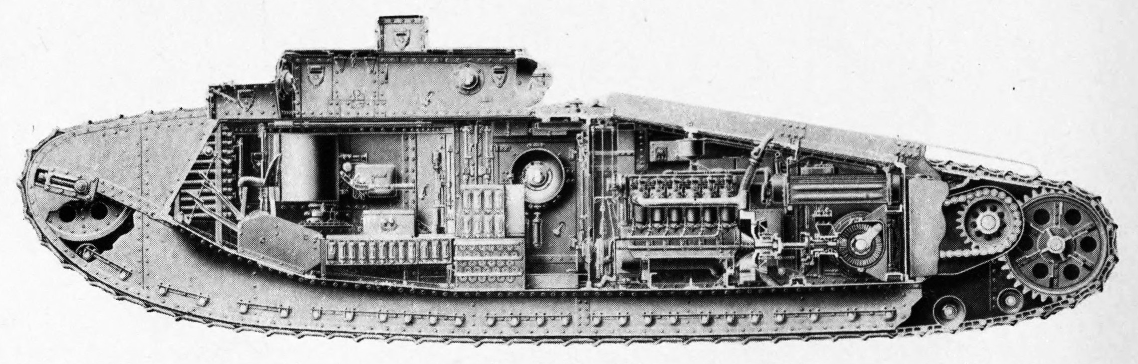 Photograph/section drawing of US Mk VIII tank.